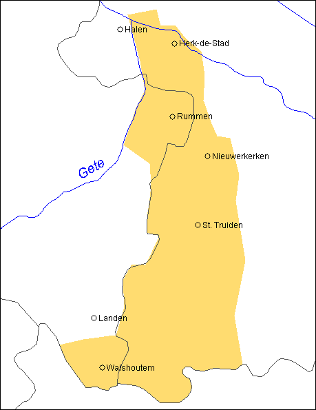 Area of Truierland dialect in Belgium